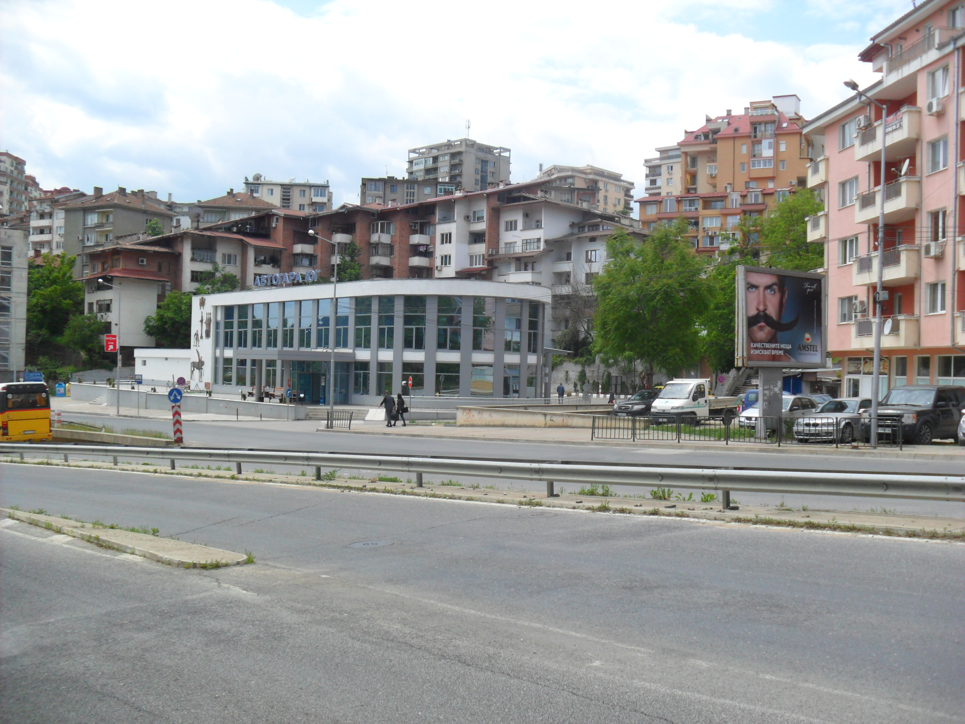 Bus station in Veliko Tarnovo